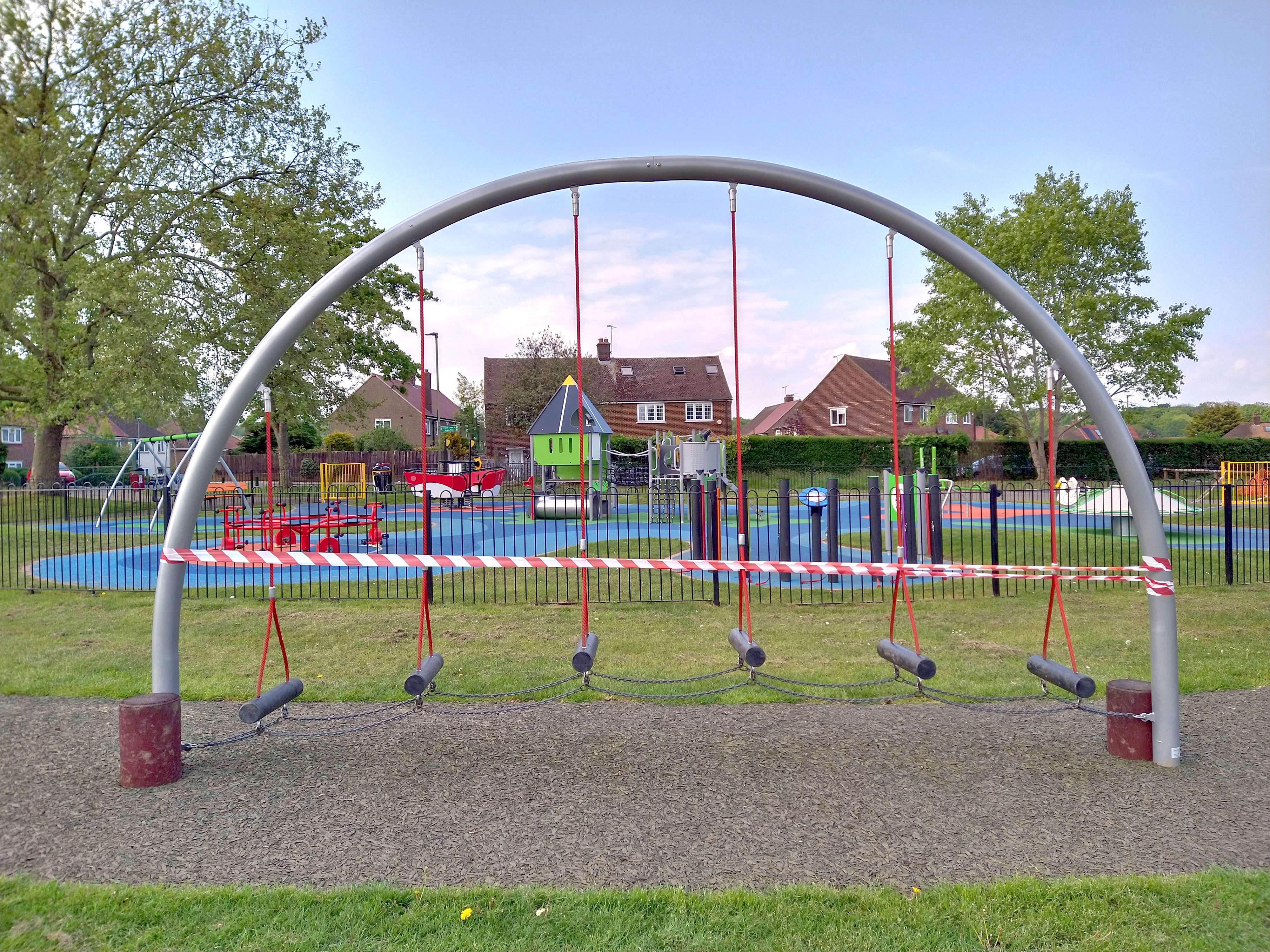 De-activated play equipment during the 2020 Covid-19 Coronavirus pandemic in London